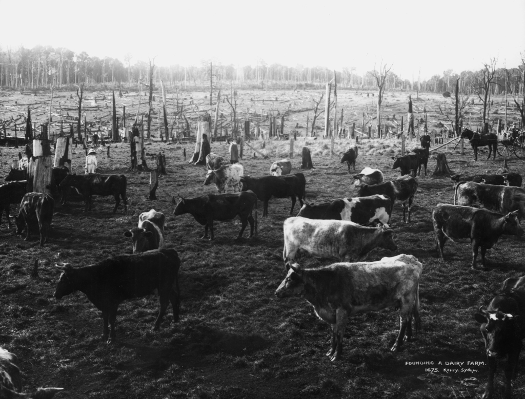 Format: Glass plate negative. Repository: Tyrrell Photographic Collection, Powerhouse Museum Part Of: Powerhouse Museum Collection General information about the Powerhouse Museum Collection is available at Persistent URL: Acquisition credit line: Gift of Australian Consolidated Press under the Taxation Incentives for the Arts Scheme, 1985